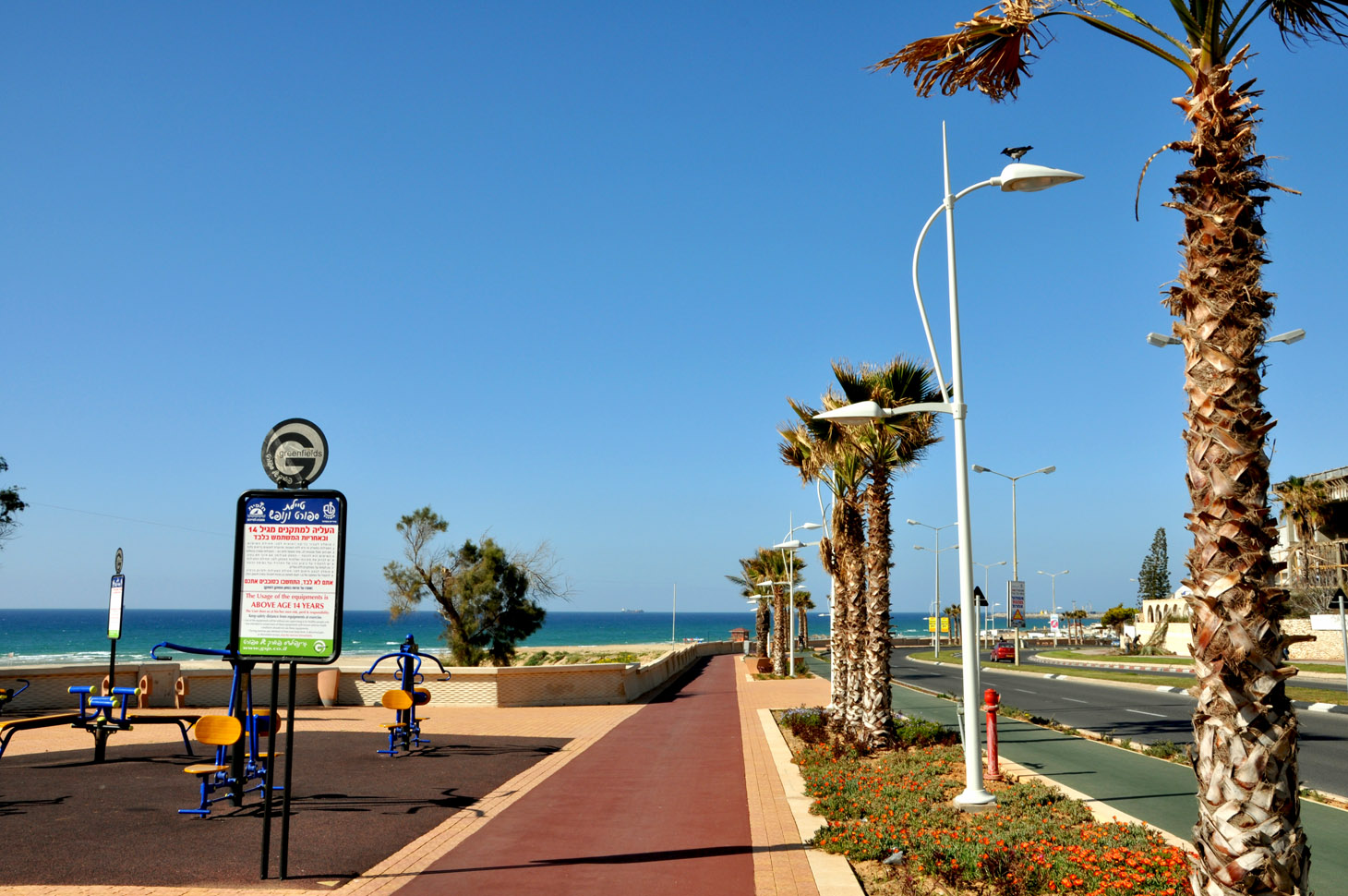 Sderot Moshe Doyan - Ashdot